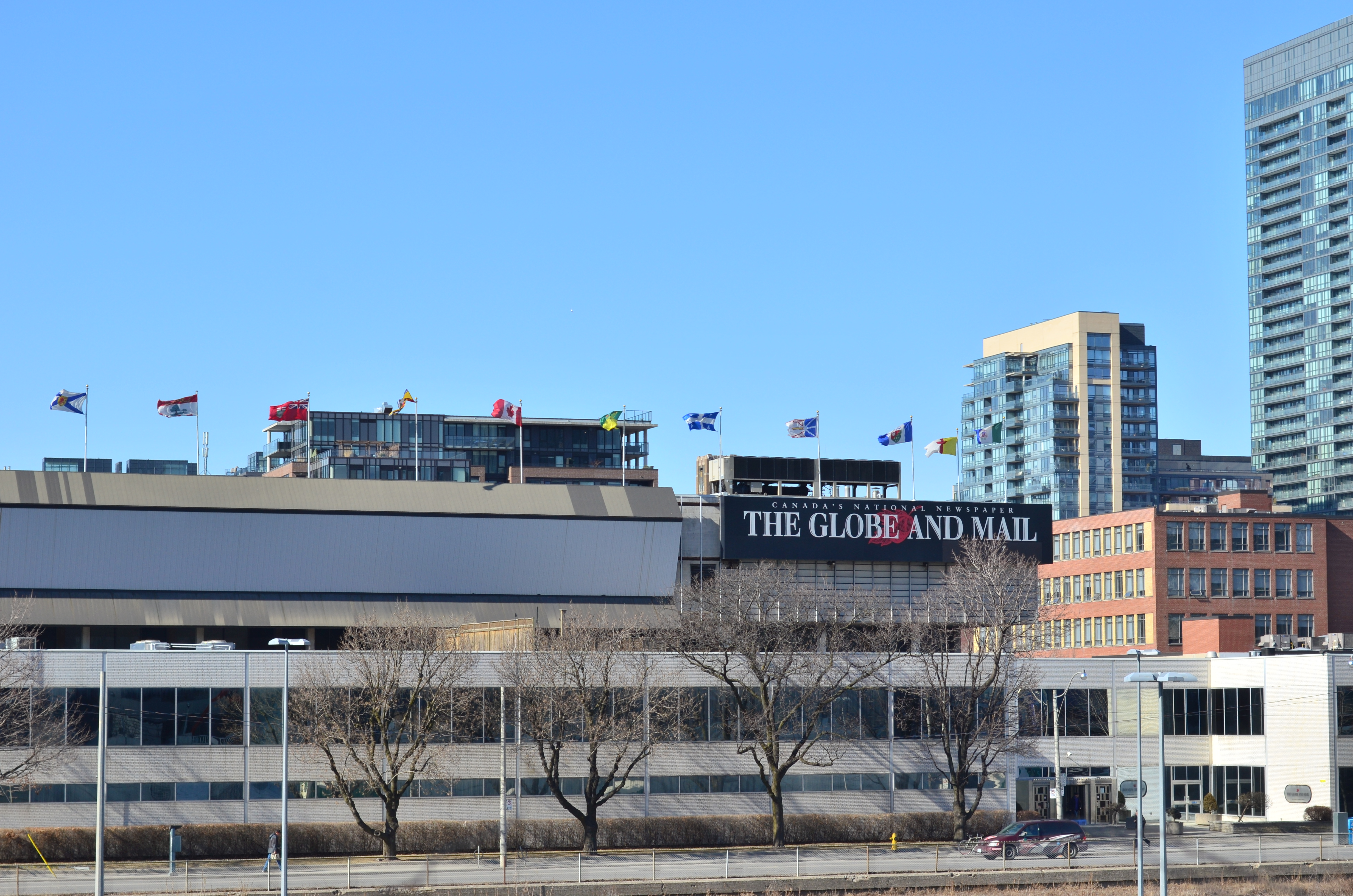 The Globe and Mail, 444 Front St West